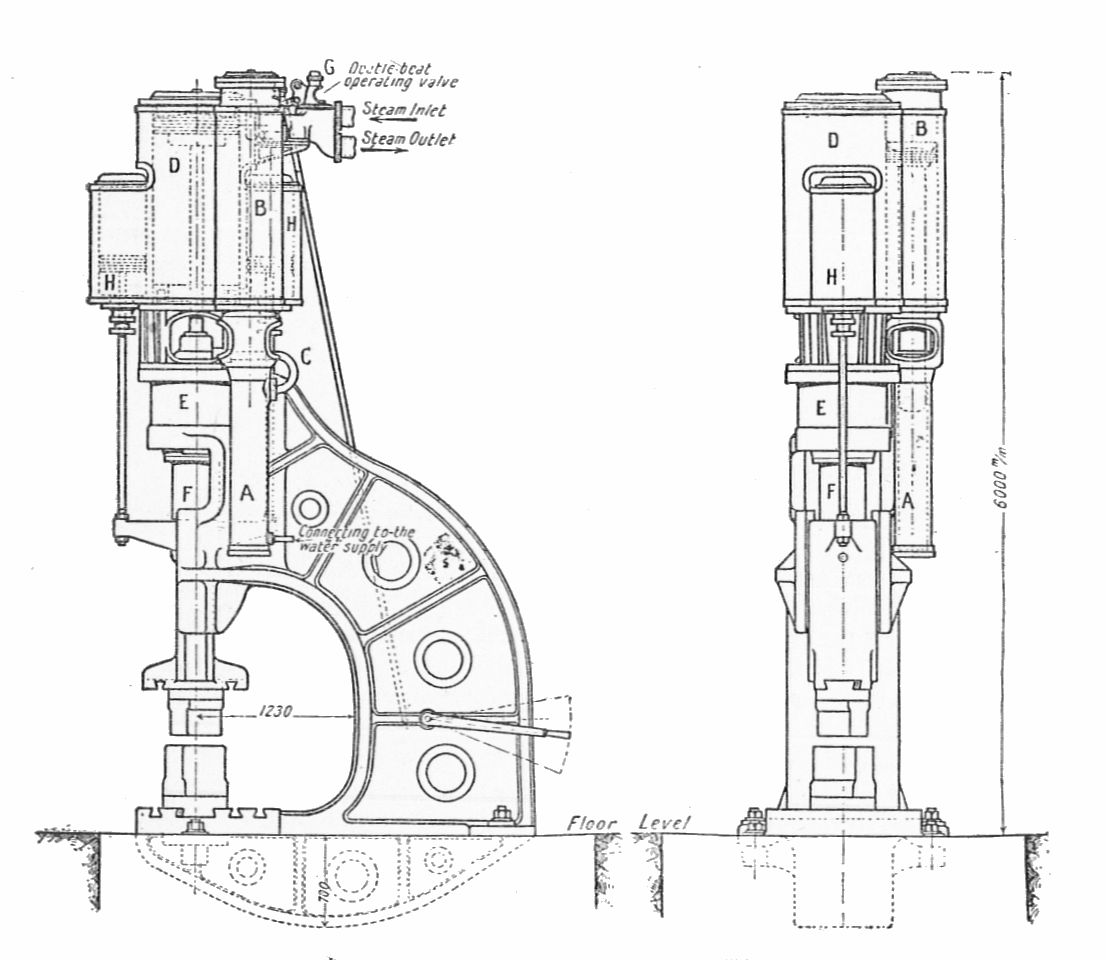 Steam hydraulic hammer (Rankin Kennedy, Modern Engines, Vol VI).jpgFig. 17 - 18 Steam hydraulic hammer